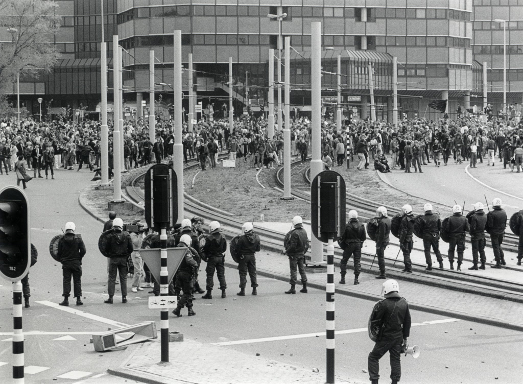 In 1985 Pope John Paul II visited the Netherlands. In Utrecht, on May 12, he attended a large meeting held in the Jaarbeurs. Meanwhile many demonstrators appeared trying to get there too. The riot police was ordered to stop them, which led to a confrontation. The riots got international media attention.